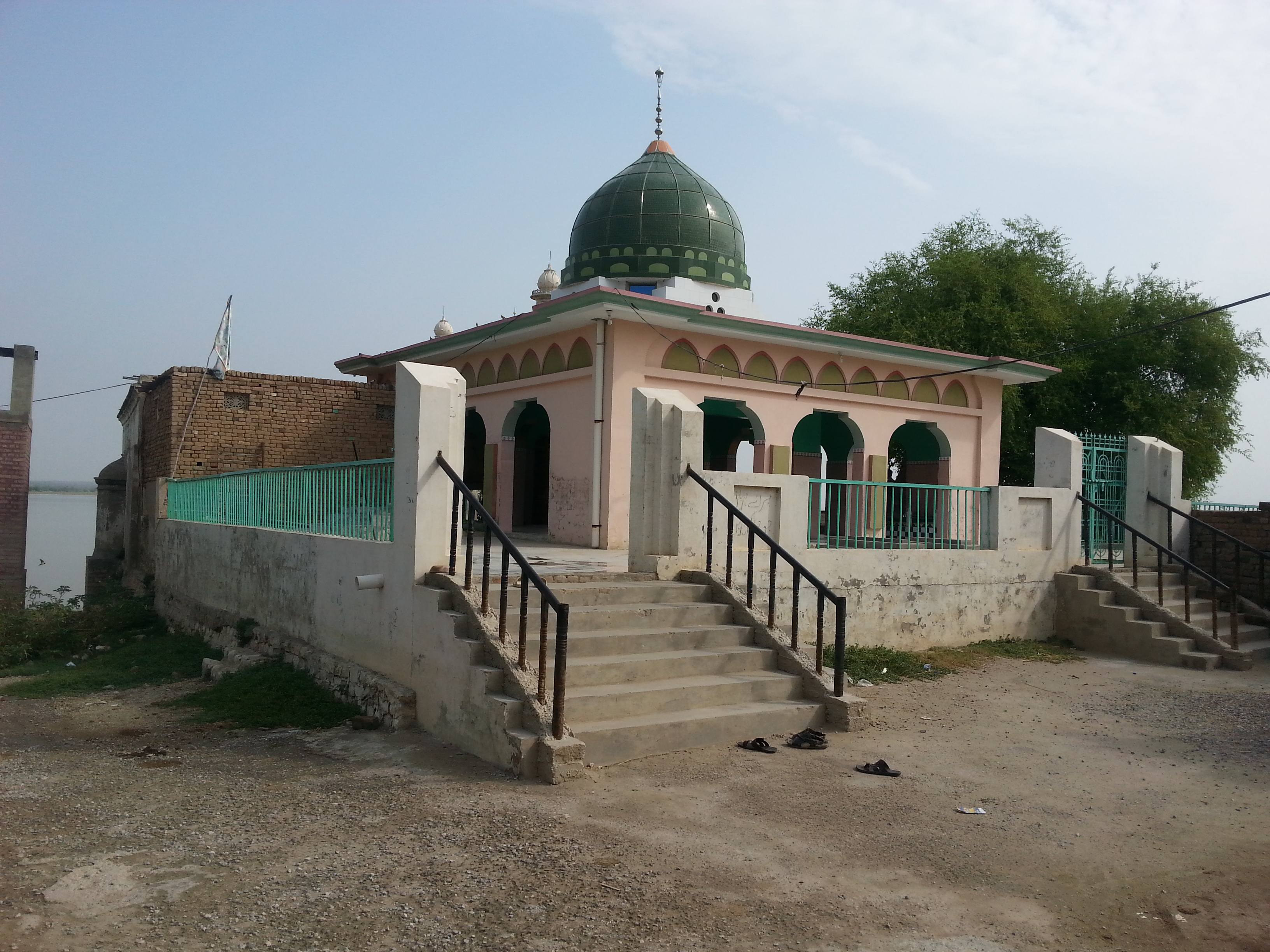 located by the Lake Ban Hafiz Jee this is the tomb of the Saint after which the village is named